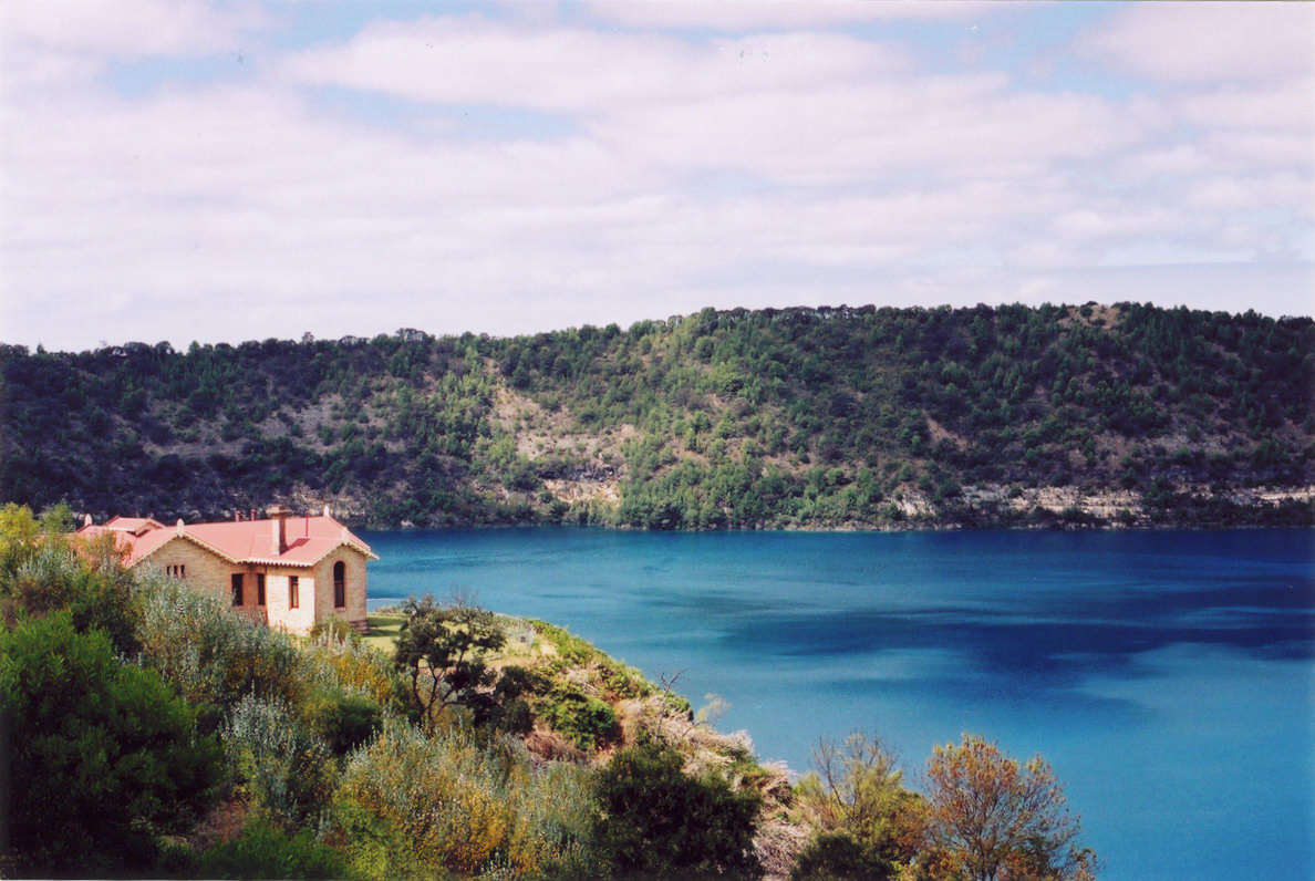 Mount Gambier's Blue Lake, the old Pumping Station in the foreground. Scanned photo taken by Stephen West in March 2004.